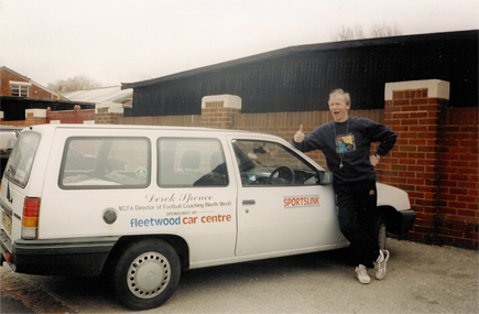 Derek Spence